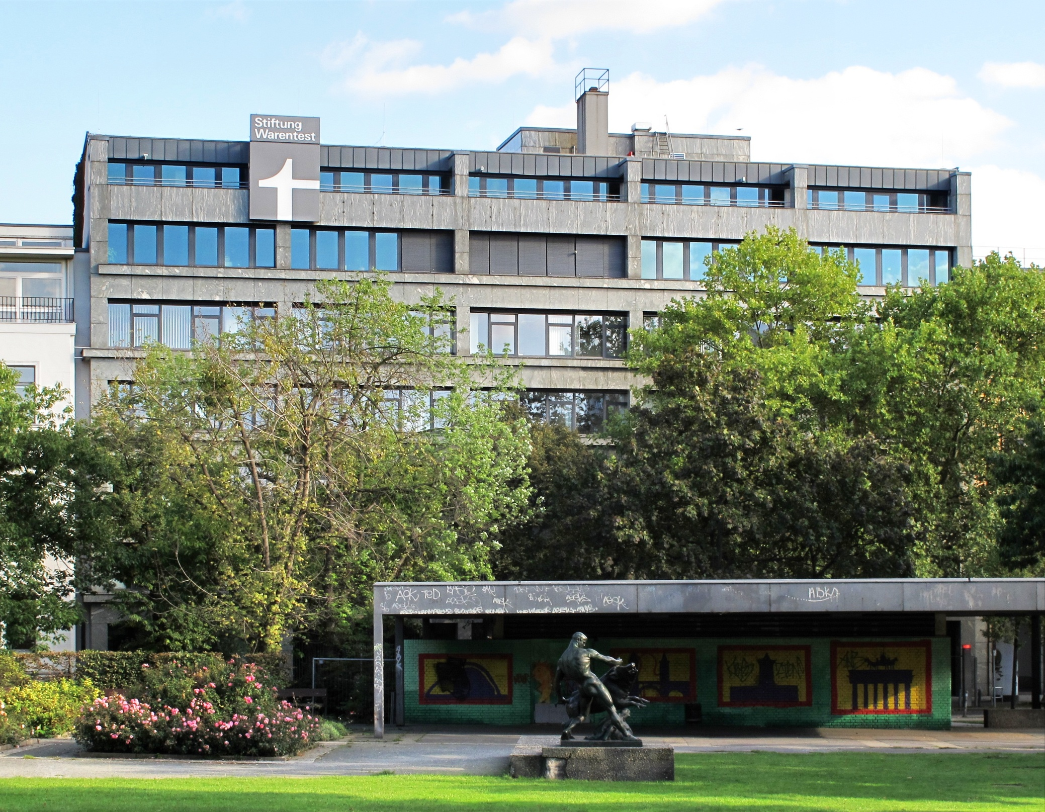 Stiftung Warentest, head office, Lützowplatz 11-13, Berlin (Germany)